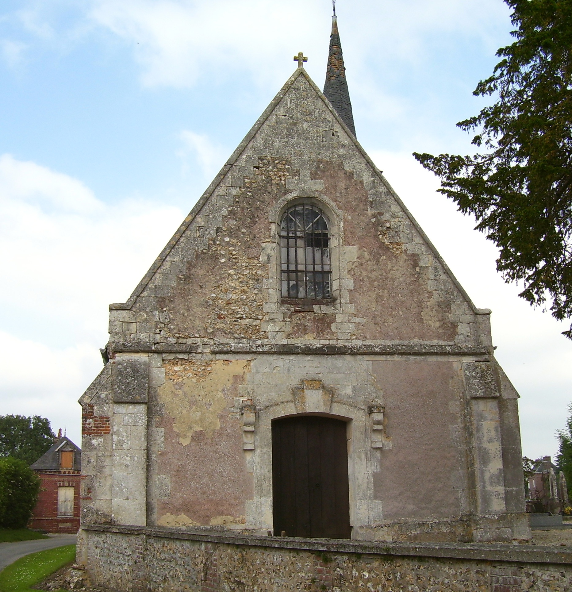 The church Saint-Just in Hecmanville (Eure) in France, was built in the 12th century.